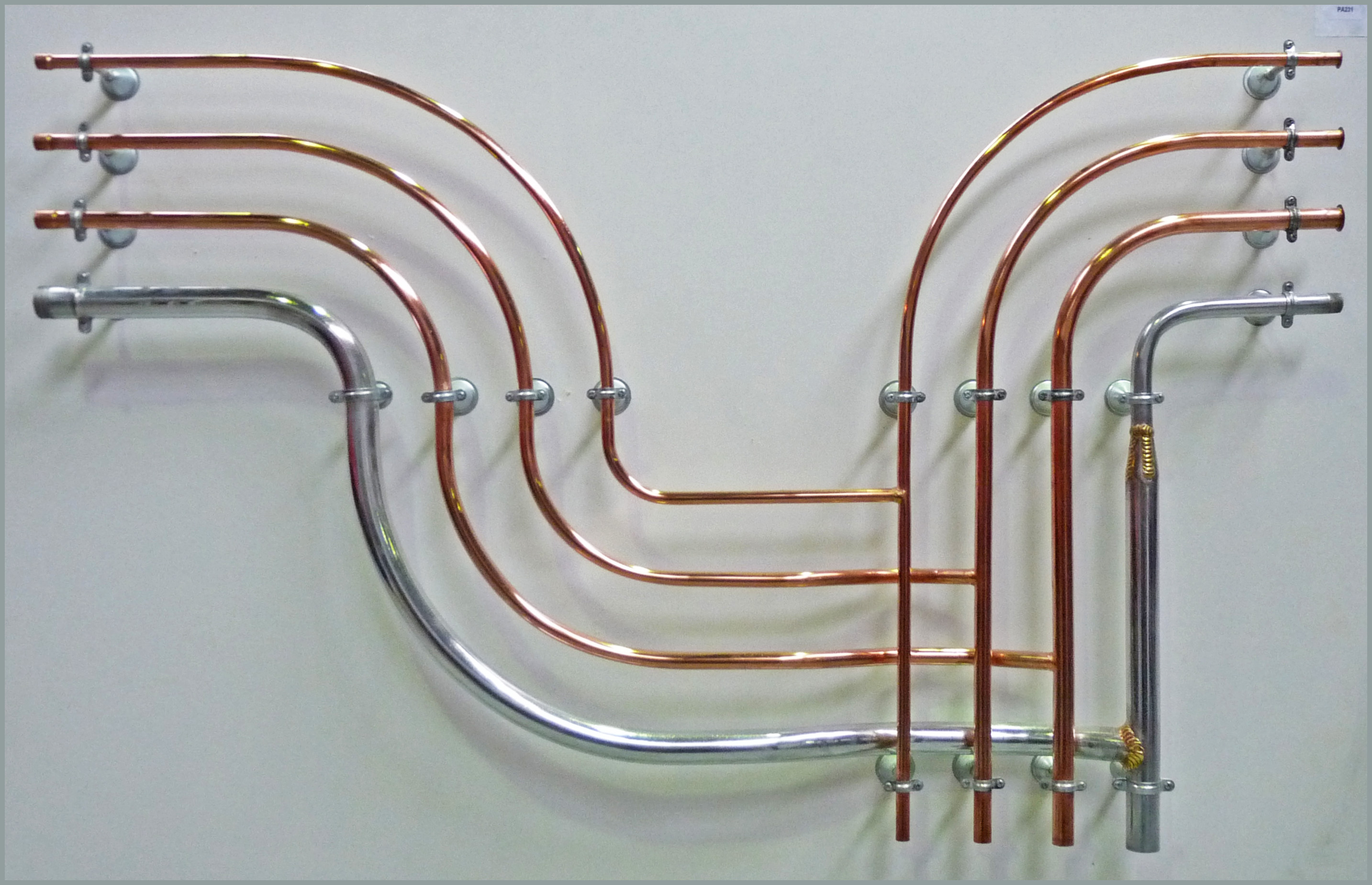 Copper and steel pipe for 2015 MAF.